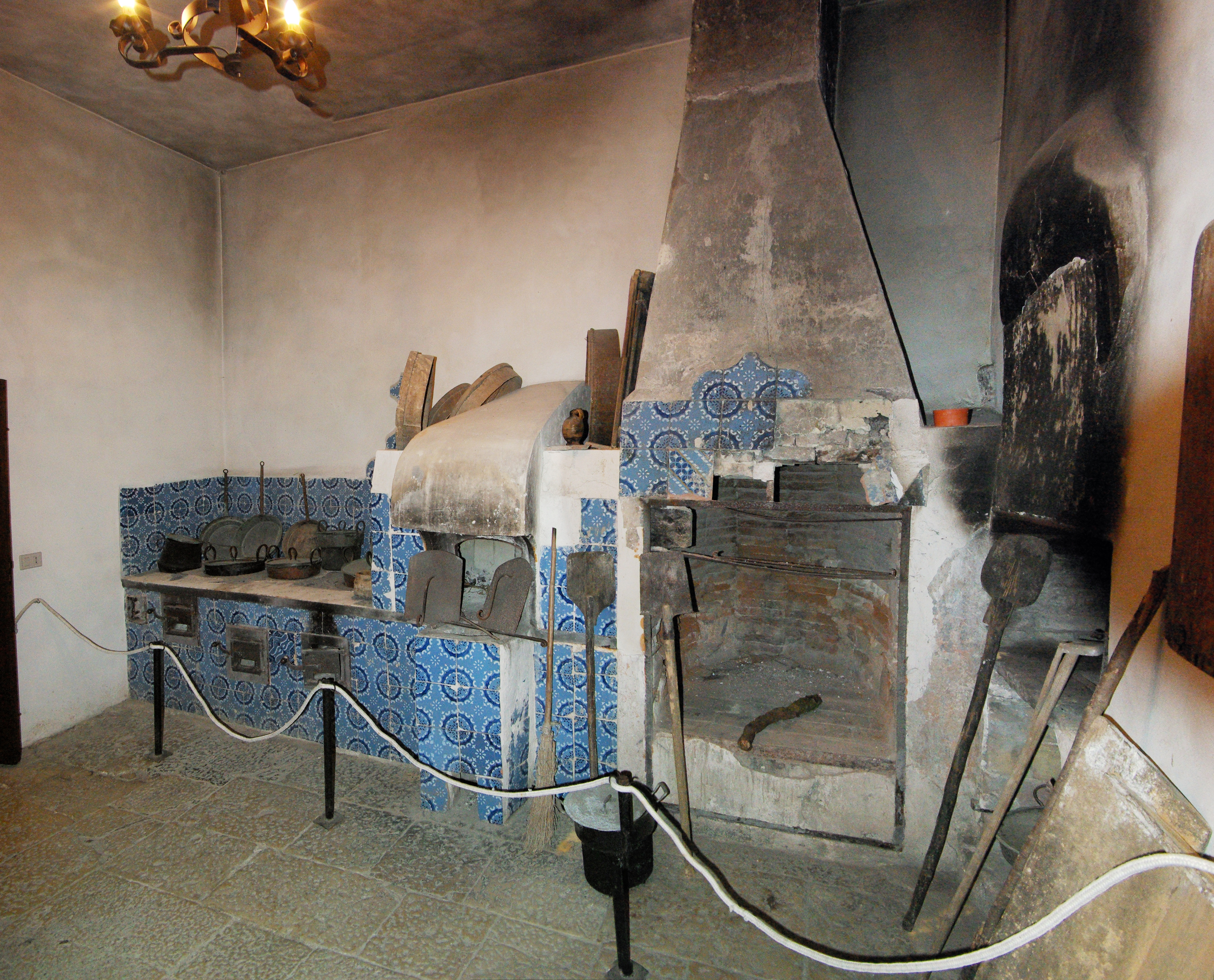 Italy, Sicily, Hermitage of Santa Rosalia: the kitchen